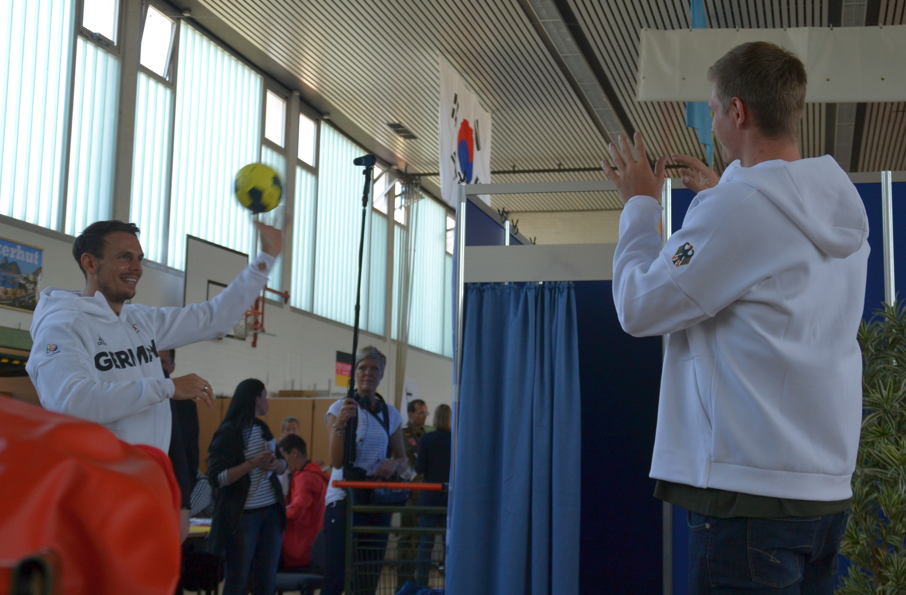 Media day of the clothing of the German Olympic team for Rio 2016 in the Emmich-Cambrai-Kaserne in Hanover. Pictured persons see Categories.